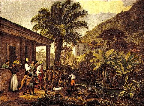 Indians visiting a Brazilian farm plantation in Minas Gerais, 1824. Painting by Johann Moritz Rugendas. (Public domain)